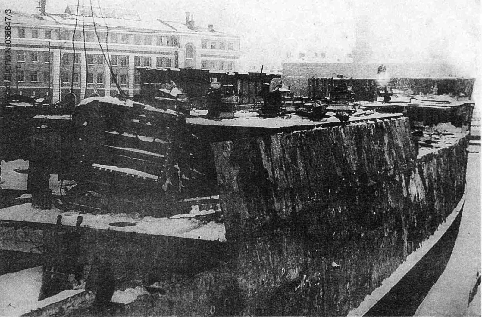 Cruiser Ryurik.